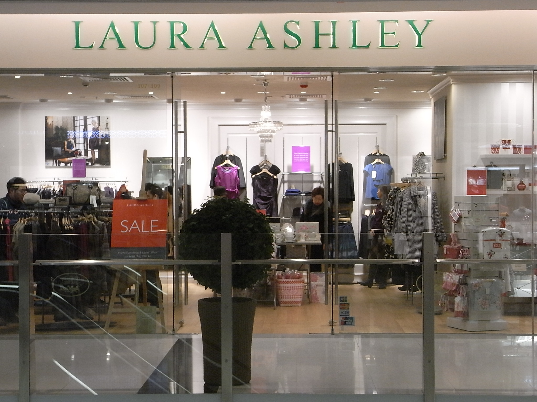 尖沙咀K11購物藝術館商場